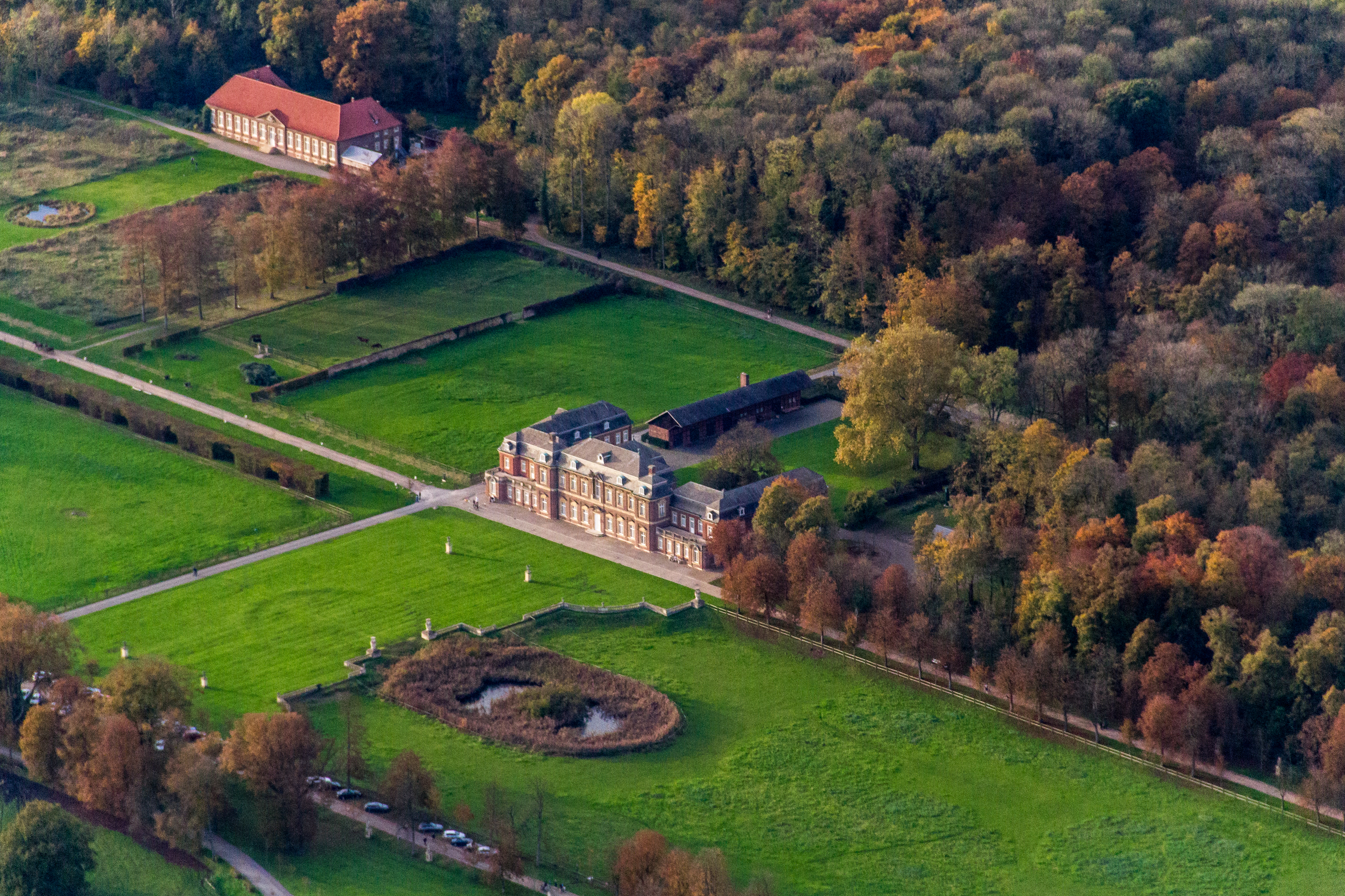 Nordkirchen Castle, Nordkirchen, North Rhine-Westphalia, Germany